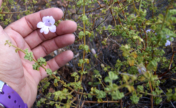 Mint bush (Prostanthera megacalyx) growing at Yapunyah Waterhole.